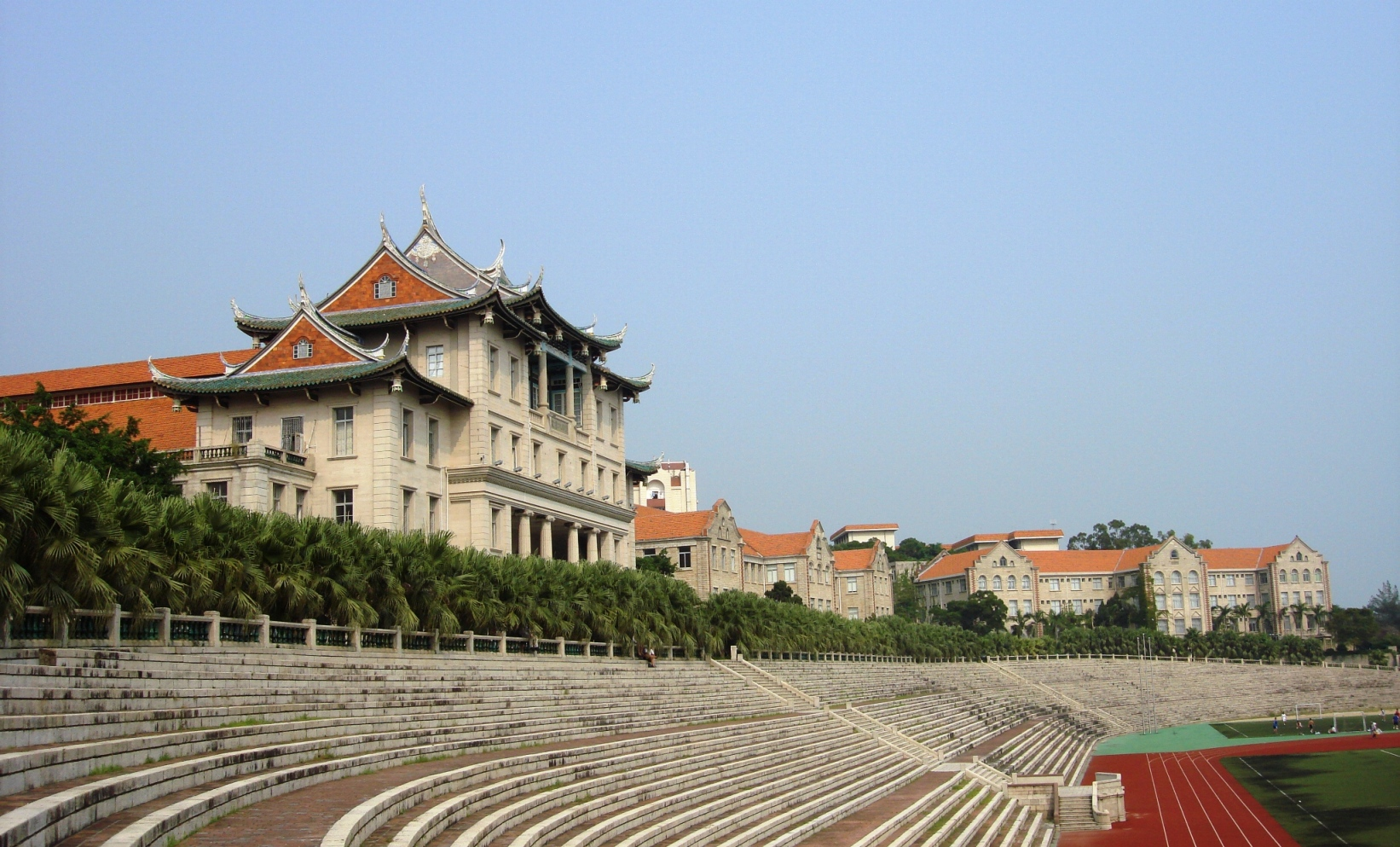 Jiannan Auditorium of Xiamen University, China. 中国厦门大学建南大礼堂及上弦场。